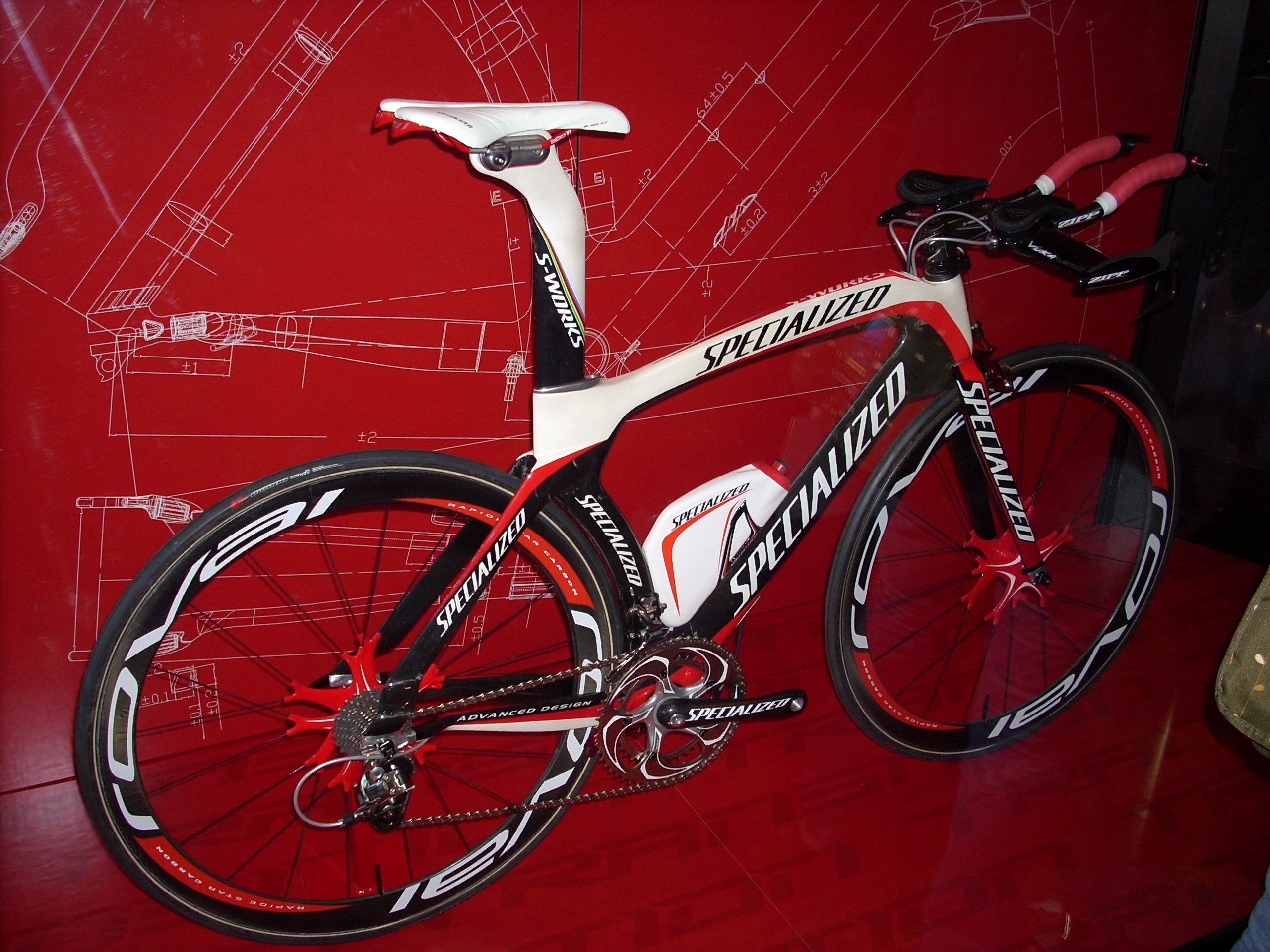 Specialized road bike